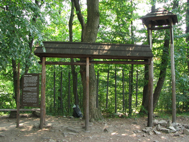 Hill of Saint Clement I - a belfry